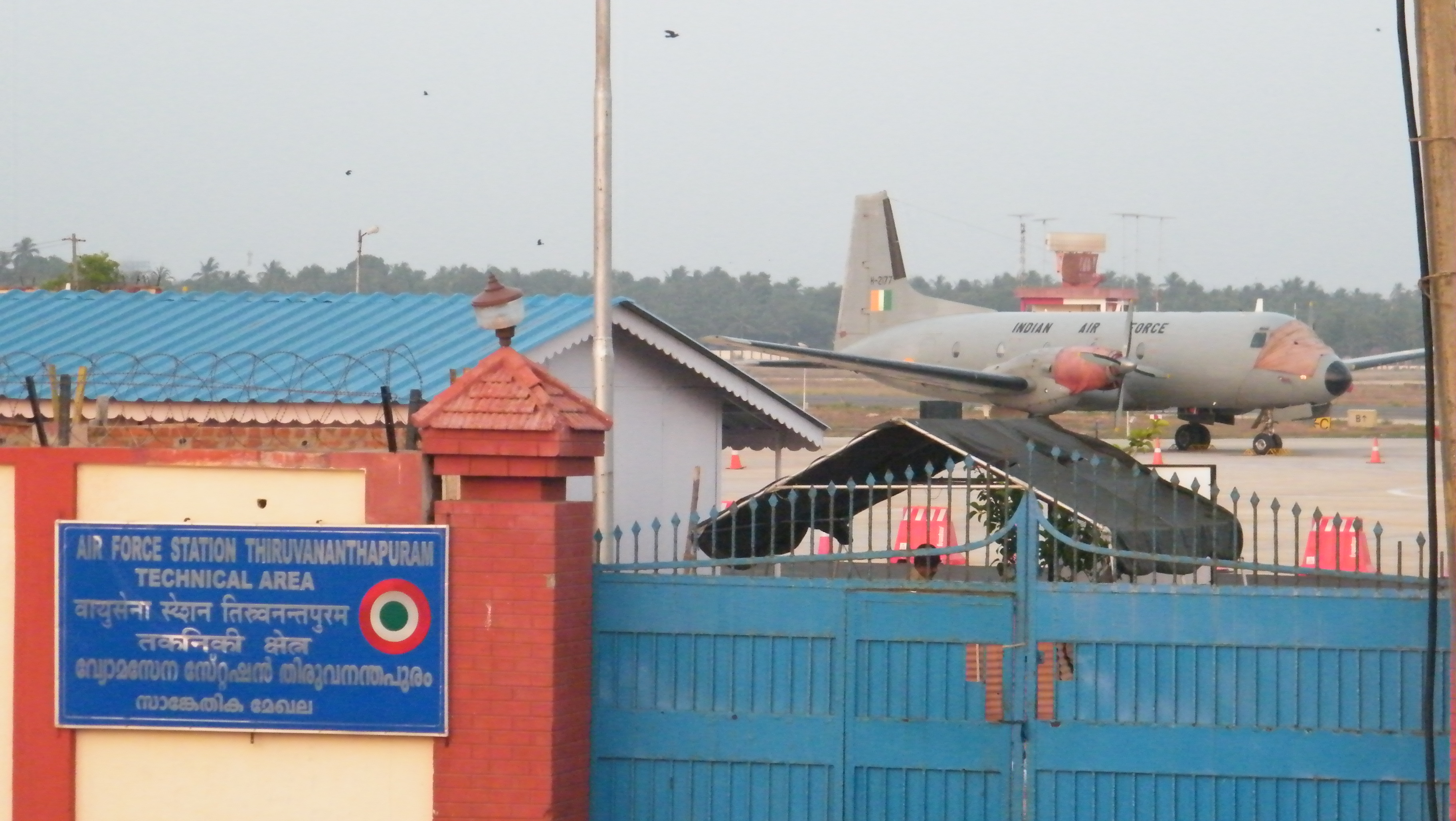 A view of Southern Air Command technical area of Indian Air Force in Sankhumukham near Trivandrum International Airport, Thiruvananthapuram.